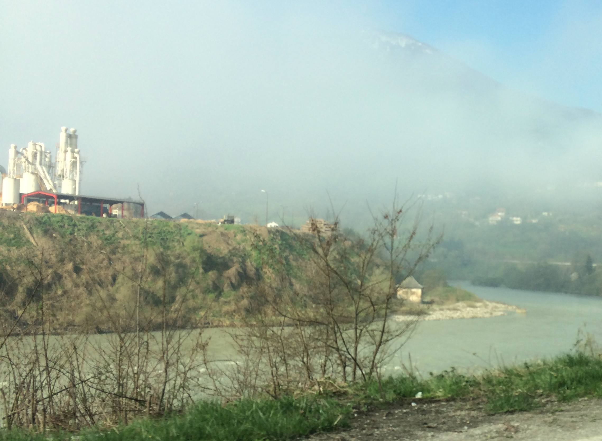 Image of the Brod-na-Drinu (Brod on the Drina River) outside of Foca city, Bosnia & Hercegovina. The factory is the Maglic Furniture Factory. The mountain is Kmur (1509 metres).